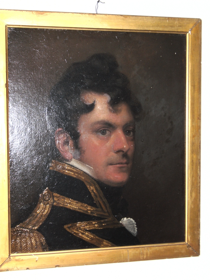 Gardiner Henry Guion